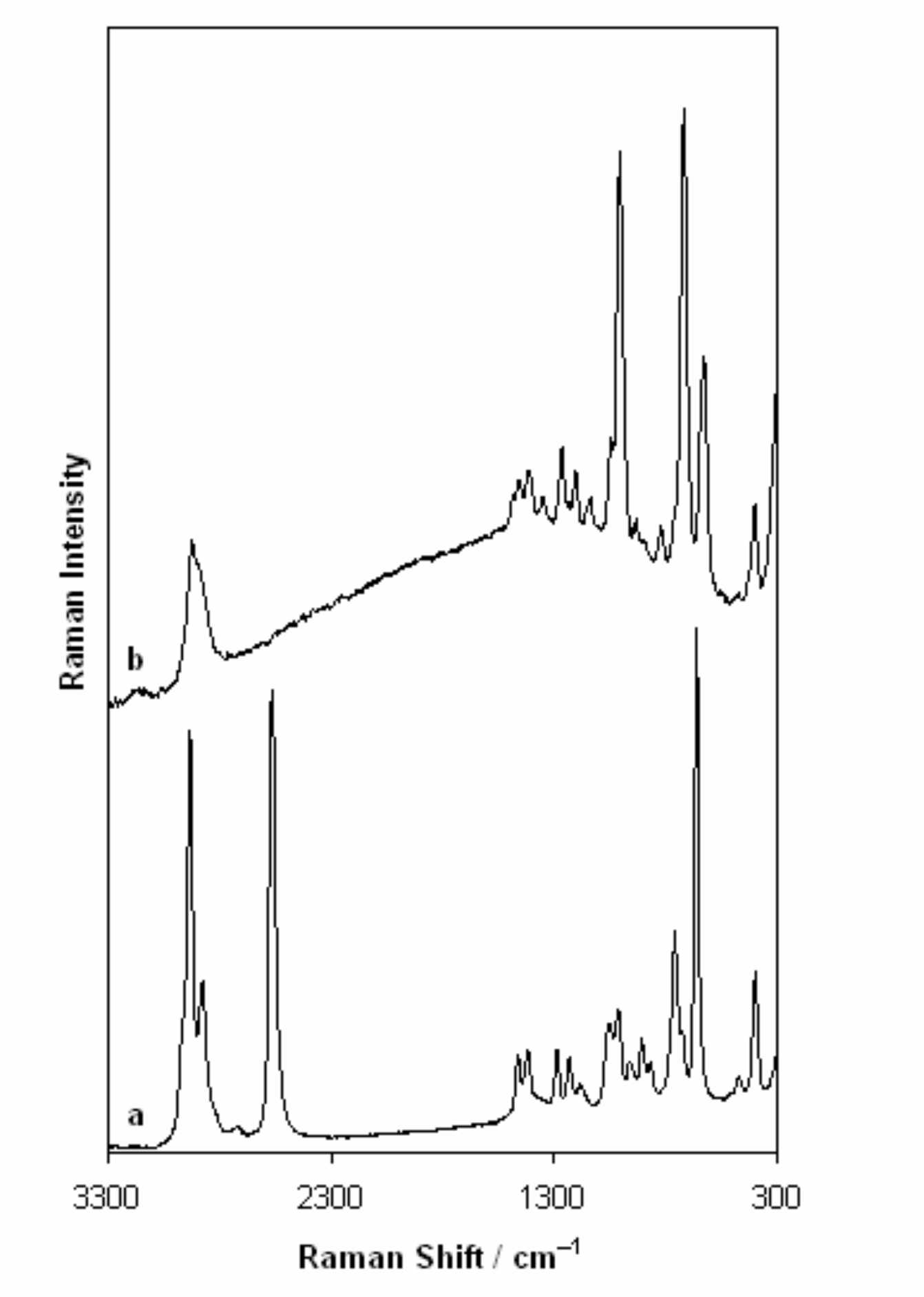 (a) below: Raman spectrum of liquid 2-mercaptoethanol and (b) above: SERS spectrum of 2-mercaptoethanol monolayer formed on roughened silver. SERS measurement was carried out for metal substrate immersed in a 10 mM 2-mercaptoethanol aqueous solution. Spectra are scaled and shifted for clarity.